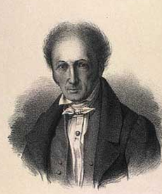 Frederik Carl Lemming (1782-1846) var en dansk guitarist, violinist og komponist was a danish guitar- and violinplayer, composer and conductor, who worked in Cap Town 1805-1817